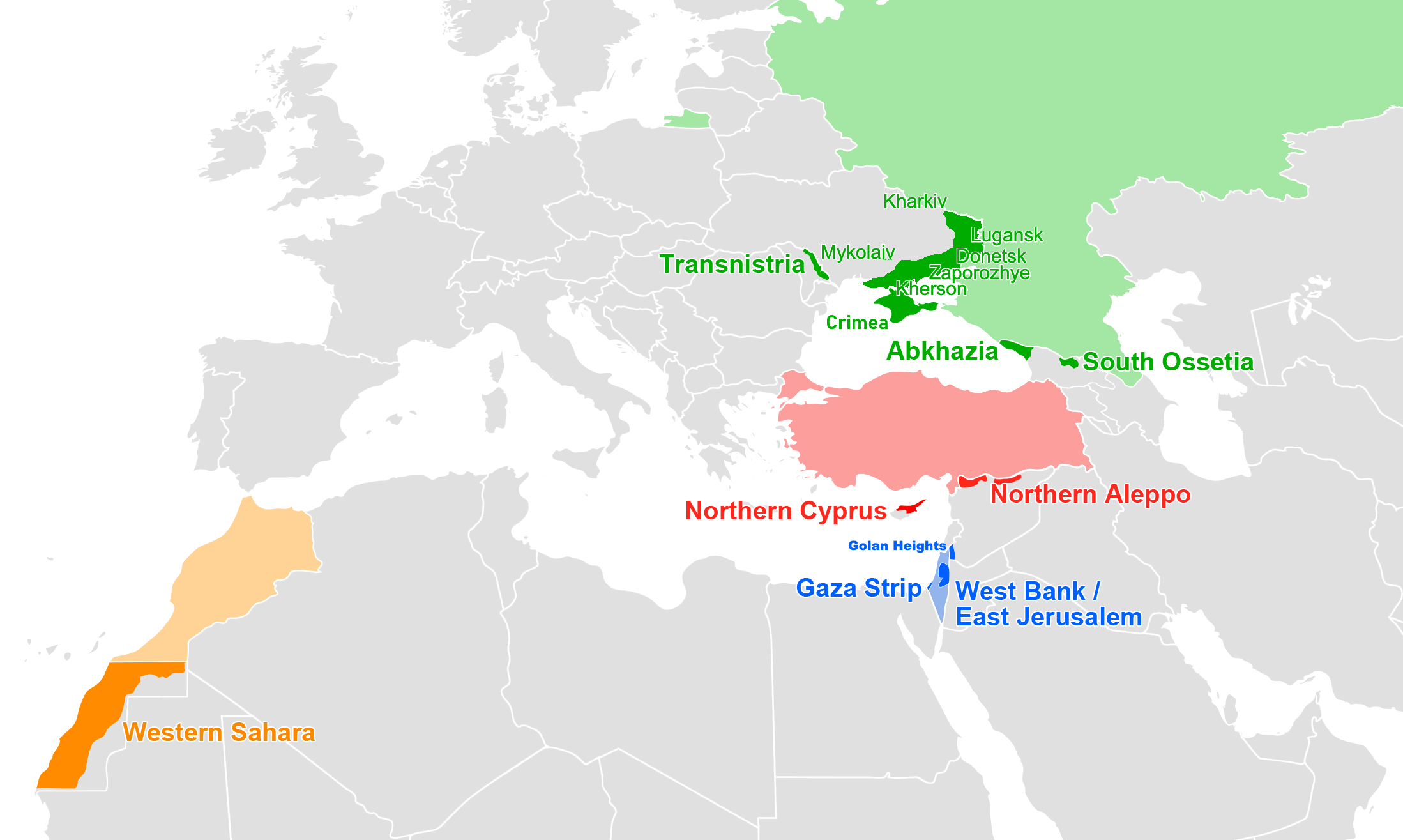 Military Occupations as at July 2018